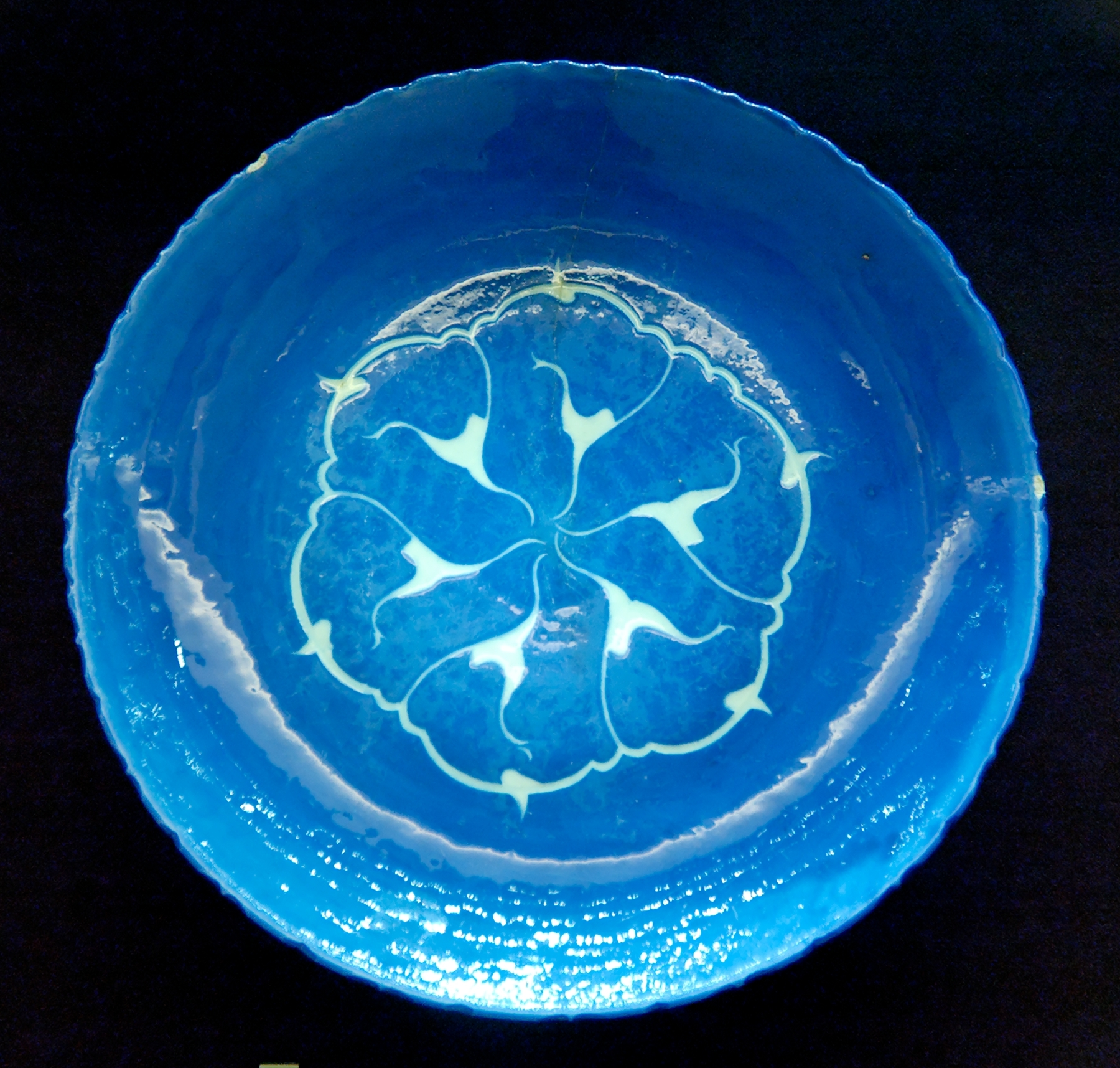 Plate. Iran, Kerman province (?). Earthenware with champlevé decoration over coloured slip and under transparent glaze.